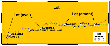 Drawing of the portion of the Lot river that has been canalized.